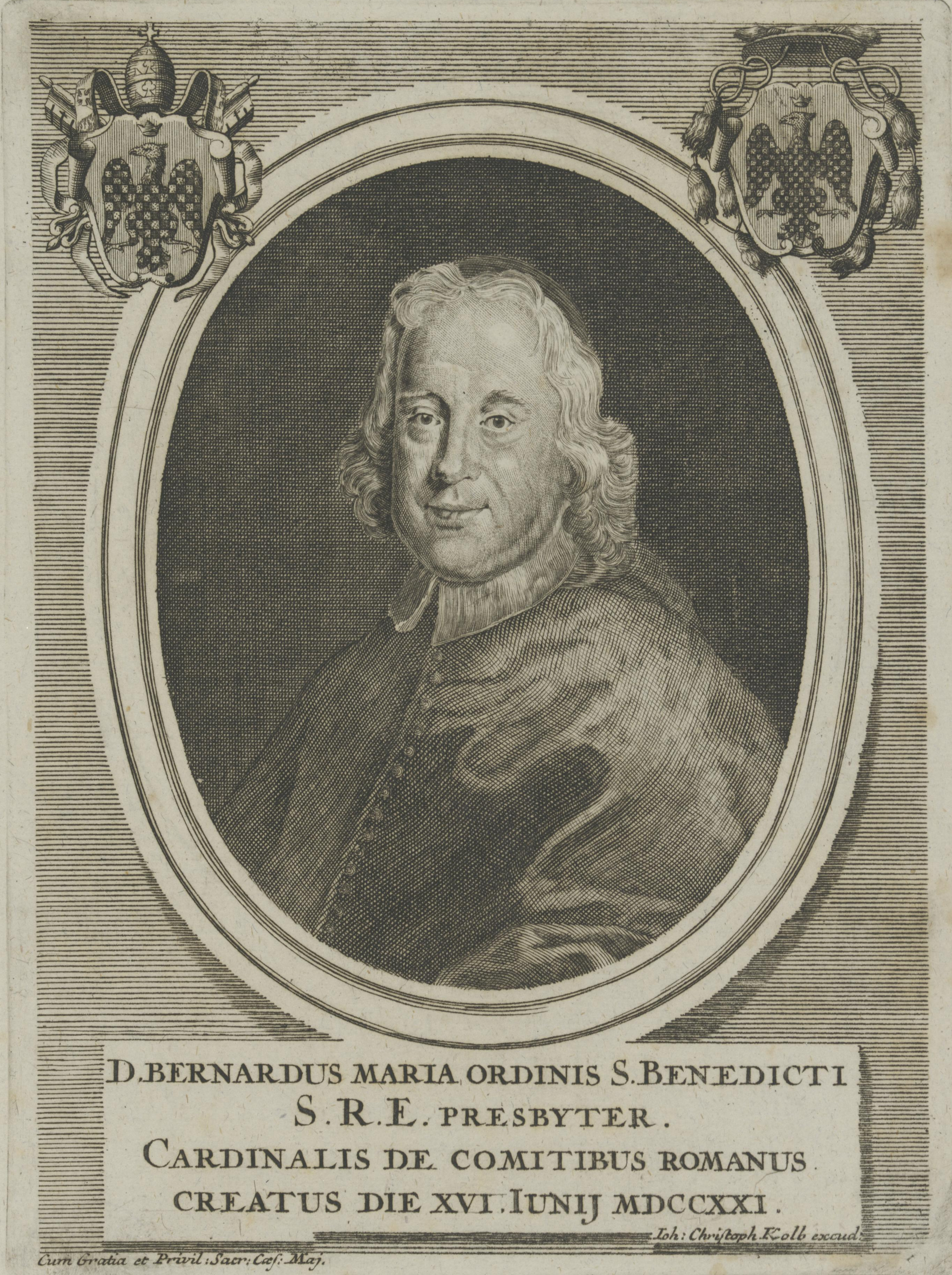 Portrait of Bernardo Maria Conti (1664-1730)